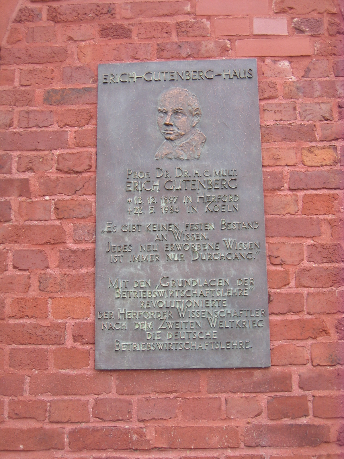 in Herford, District of Herford, North Rhine-Westphalia, Germany.